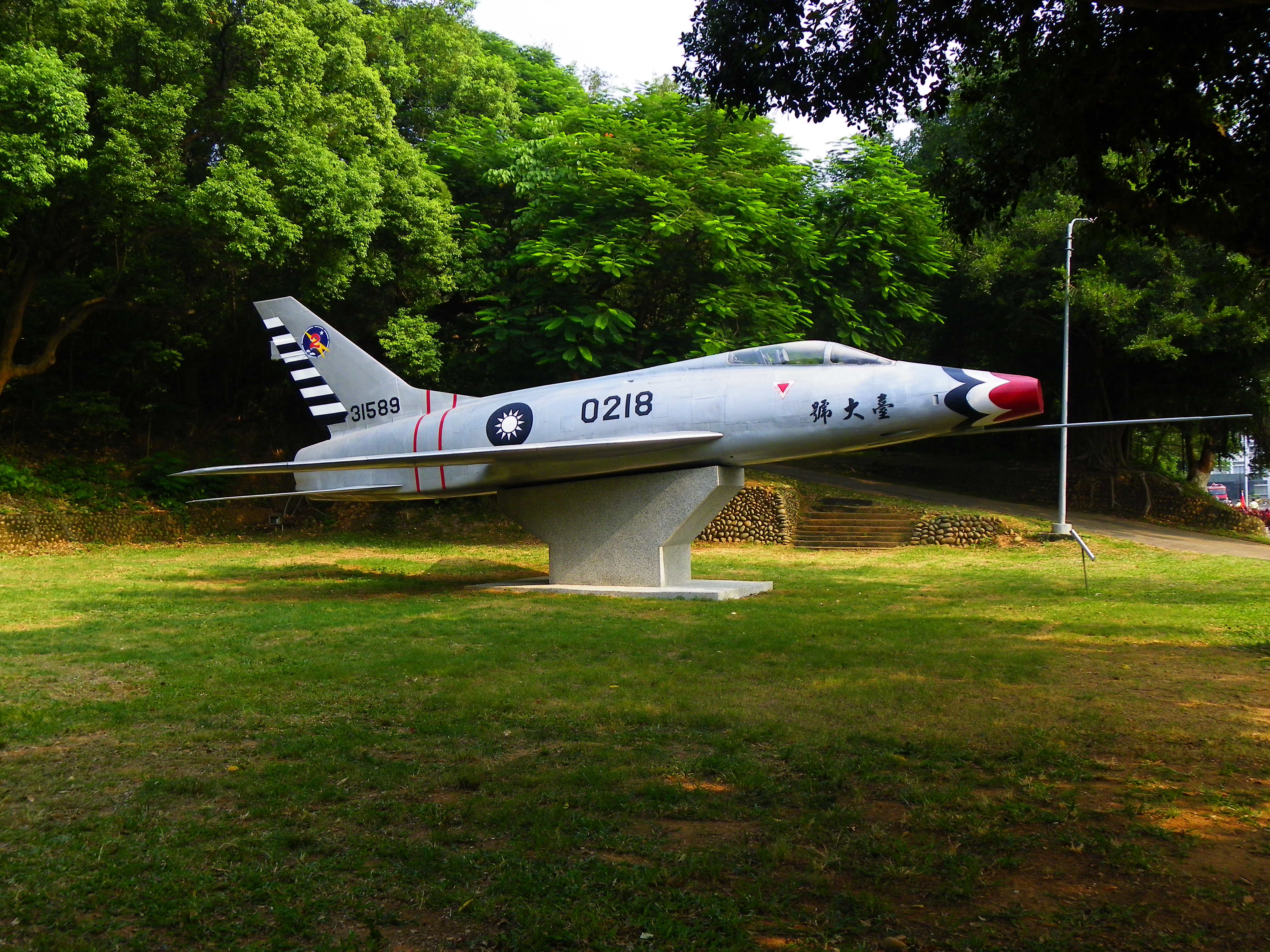 A former Republic of China Air Force North American F-100A-15-NA Super Sabre (USAF s/n 53-1589) on display at the National Taiwan University, Chengkungling, Taiwan.